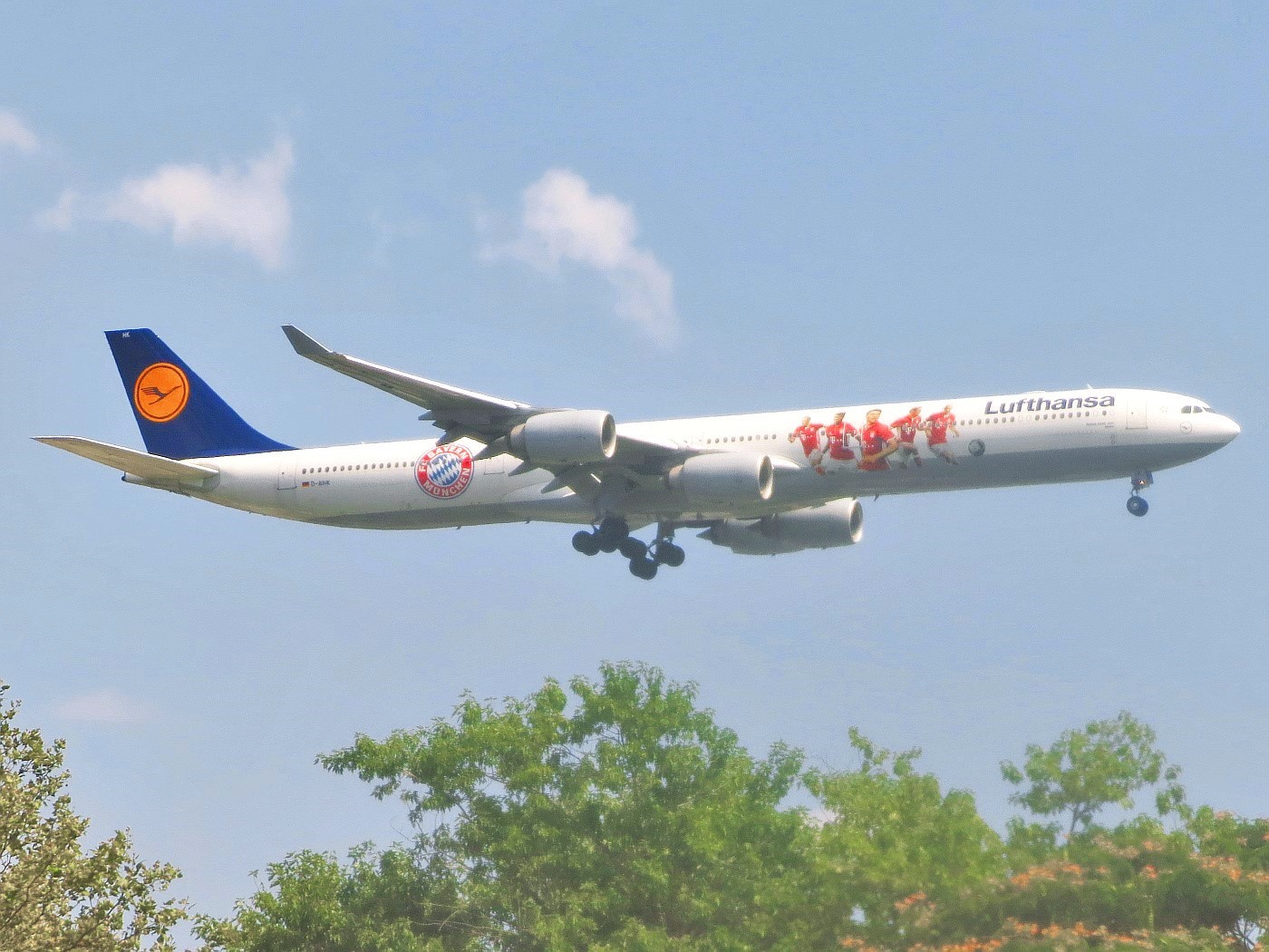 A Lufthansa Airbus A340, with special branding for FC Bayern Munich on the fuselage, is approaching John F. Kennedy International Airport Runway 22L.